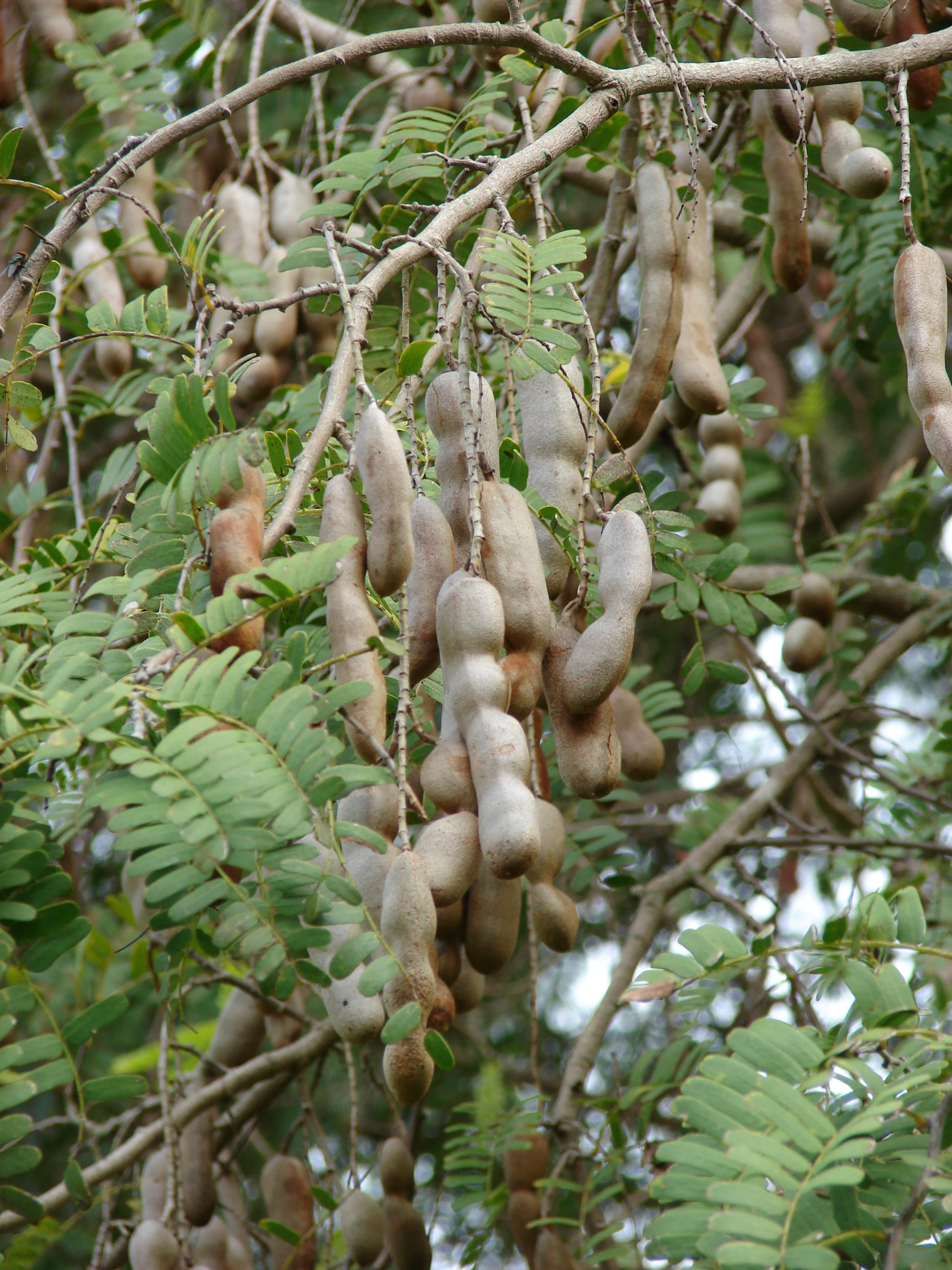 Tamarindus indica (fruit). Location: Midway Atoll, Citrus grove Sand Island